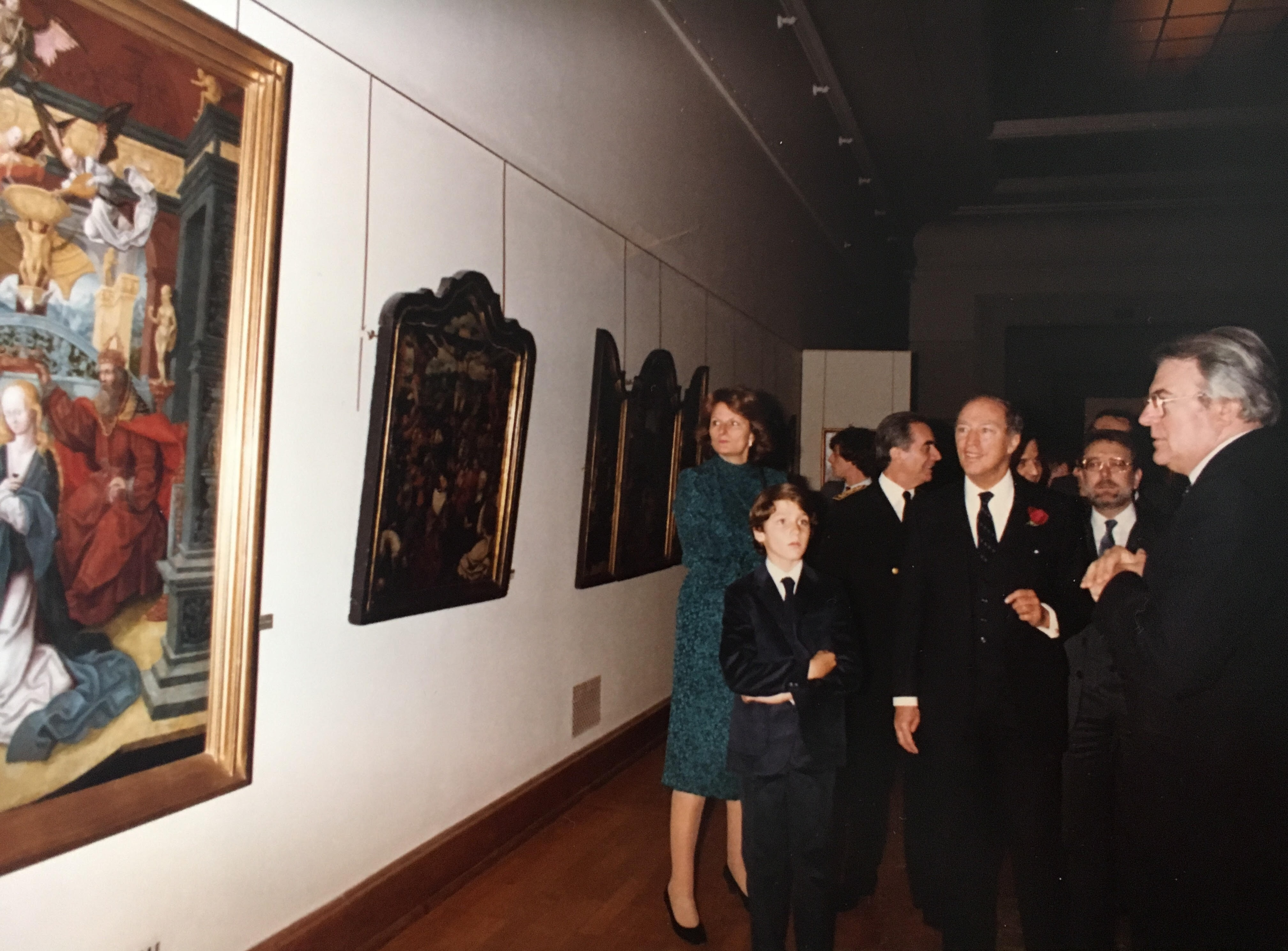 Formal visit of the museum with, on the left, Jacquie Buffin, deputy major in charge of culture, on the right, Pierre Mauroy, major of Lille from 1973 to 2001. In the middle, Justin Trudeau (when he was 10 years old) and his father, Pierre Elliott Trudeau, Prime Minister of Canada at this moment. Justin Trudeau is the 23th and (as of 2017) current Prime Minister of the Government of Canada.